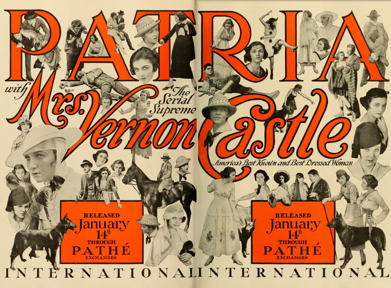 advertisement in Moving Picture World